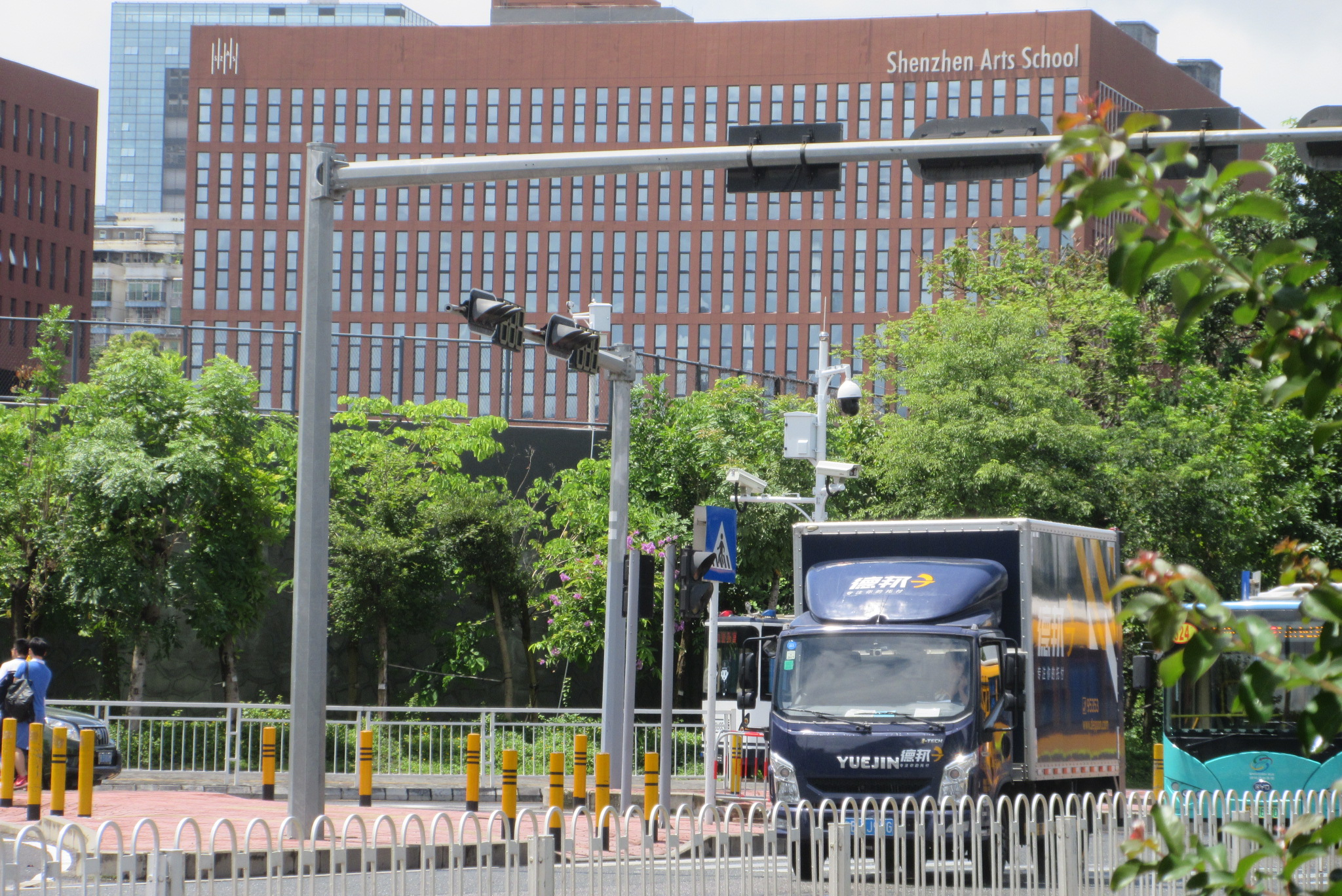 SZ 深圳 Shenzhen 南山 Nanshan District 南頭街道 Nantou 南山大道 Nanshan Blvd in July 2017